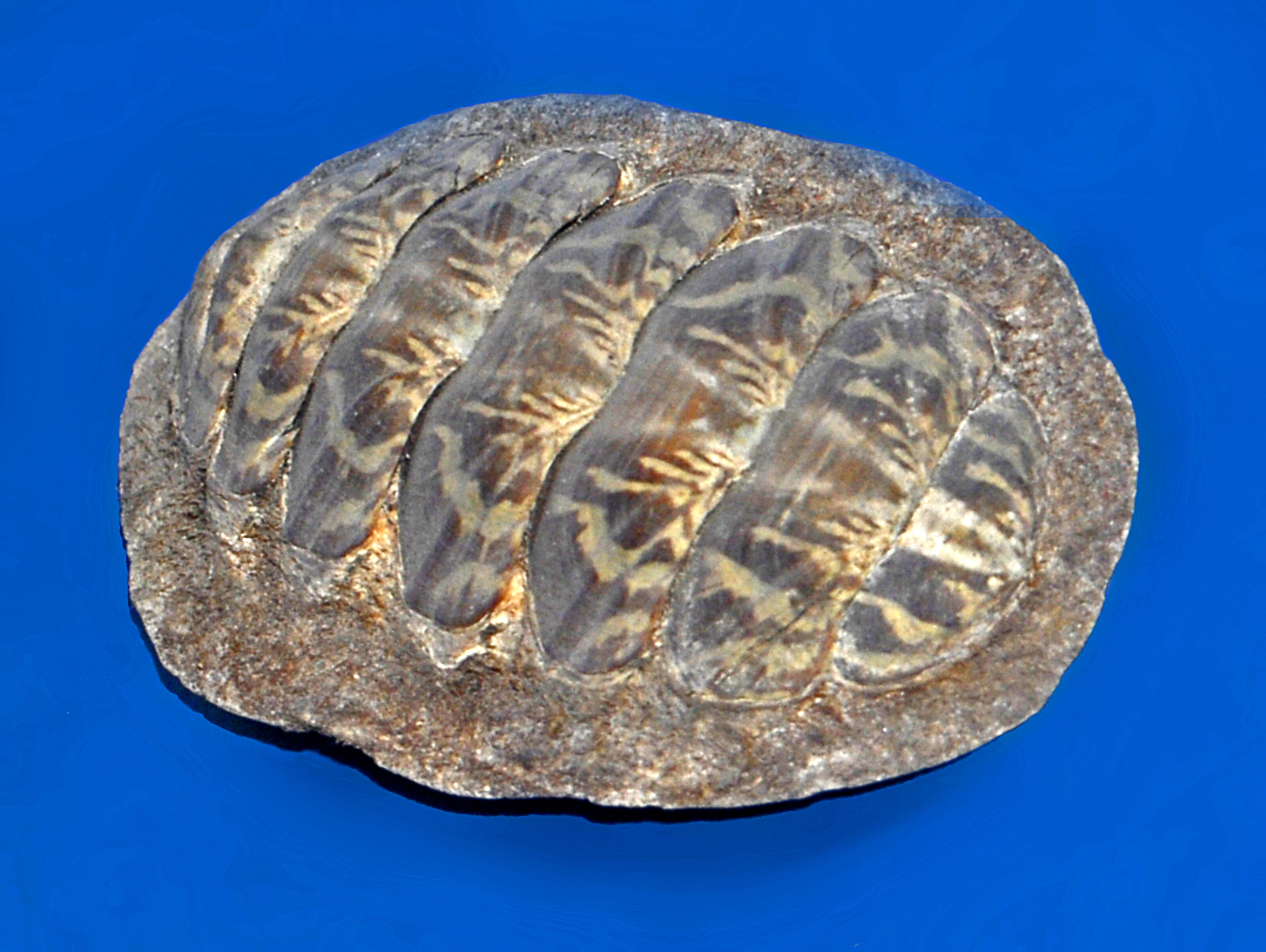 Plaxiphora albida from Tasmania on display at the Museo Civico di Storia Naturale di Milano. Dorsal surface